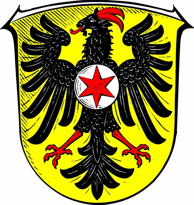 Coat of Arms of Schwalmstadt